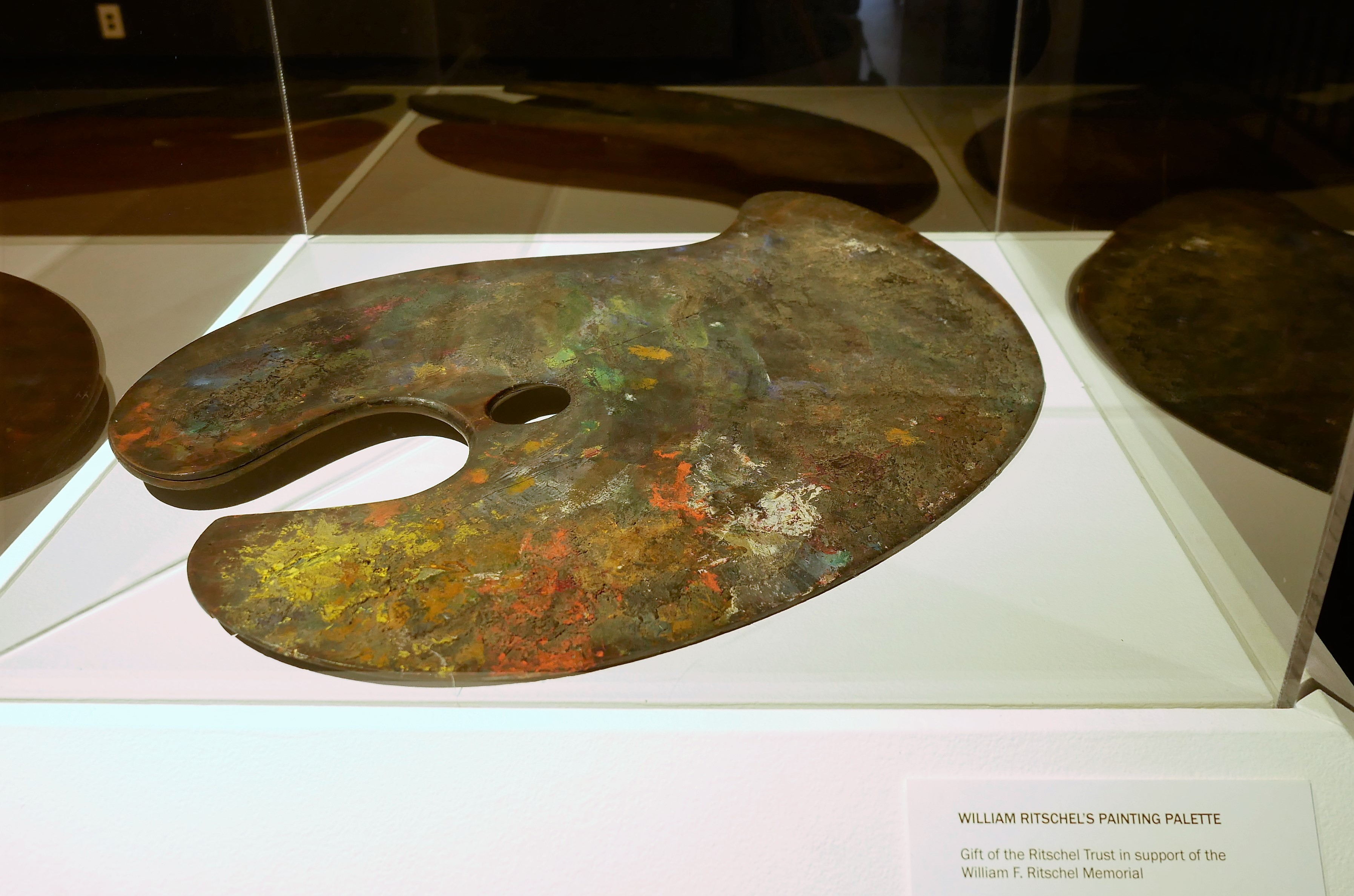 William F. Ritschel Painting palette - donated to the Monterey Museum of Art - Gift of the Ritschel Trust.